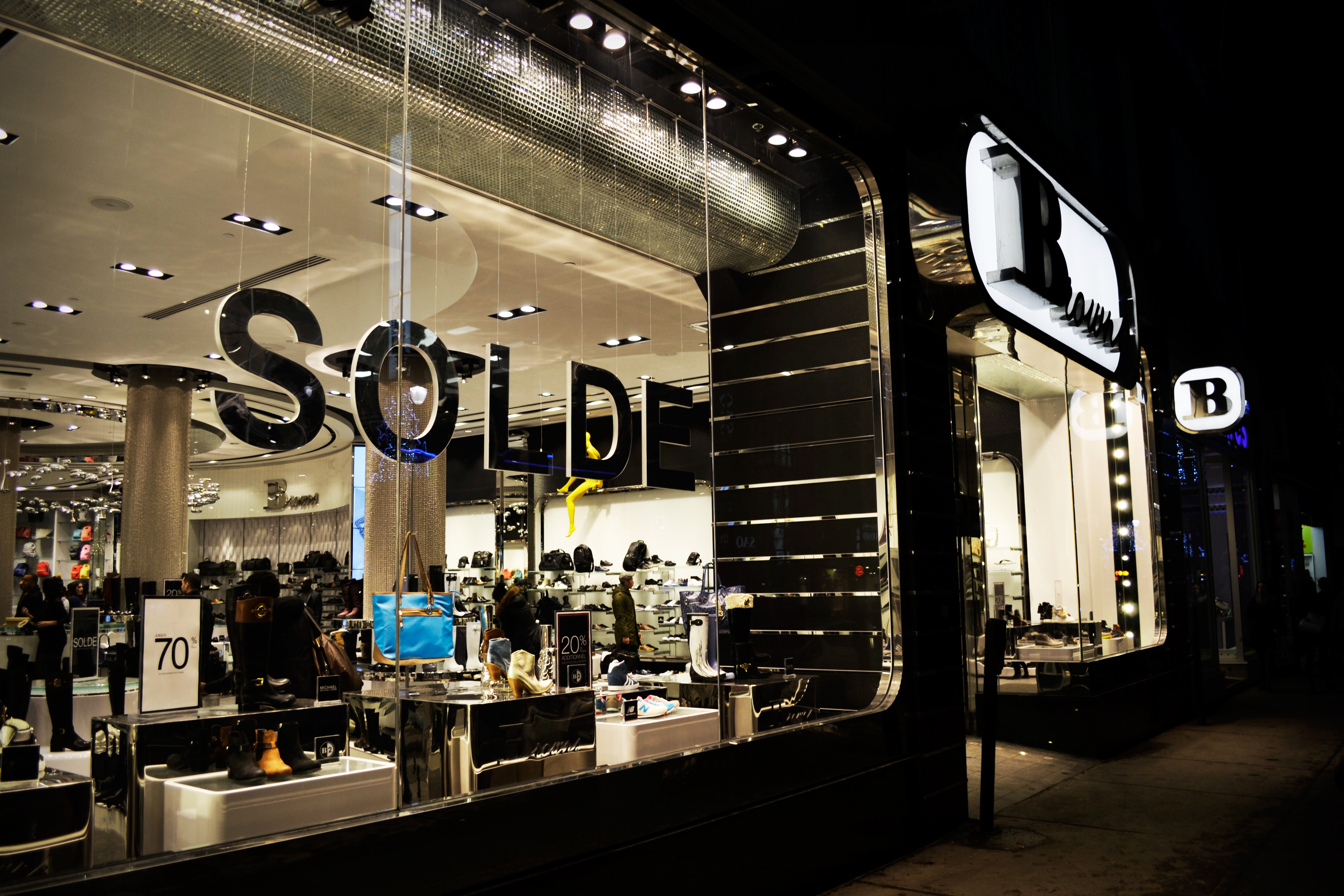 This is a photo of the Brown’s shoe store in Montreal (Quebec, Canada). If you make use of this image, please make sure you link to from your own site.